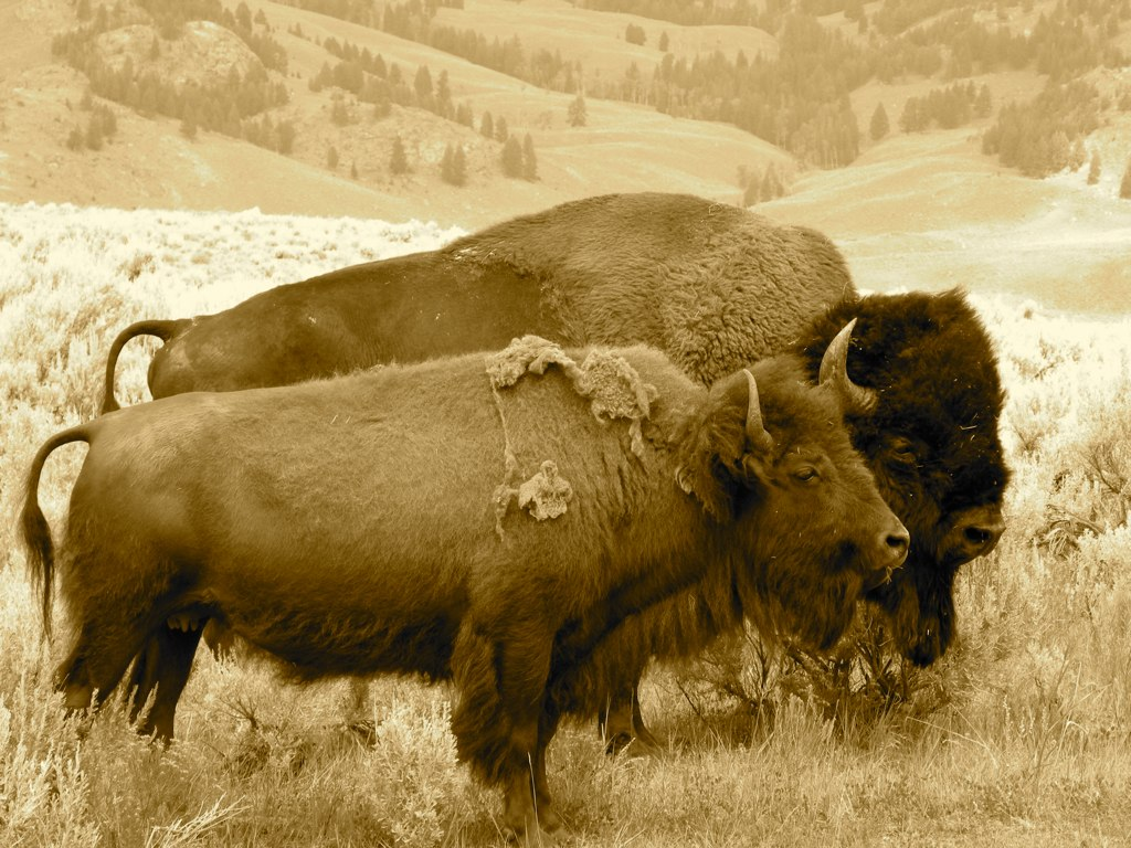 Picture of buffalo taken in Yellowstone National Park